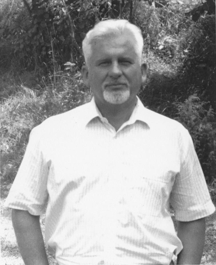 Jan W. Wos' portrait